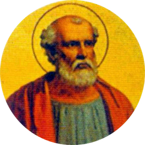 Portait of Pope Zosimus in the Basilica of Saint Paul Outside the Walls, Rome